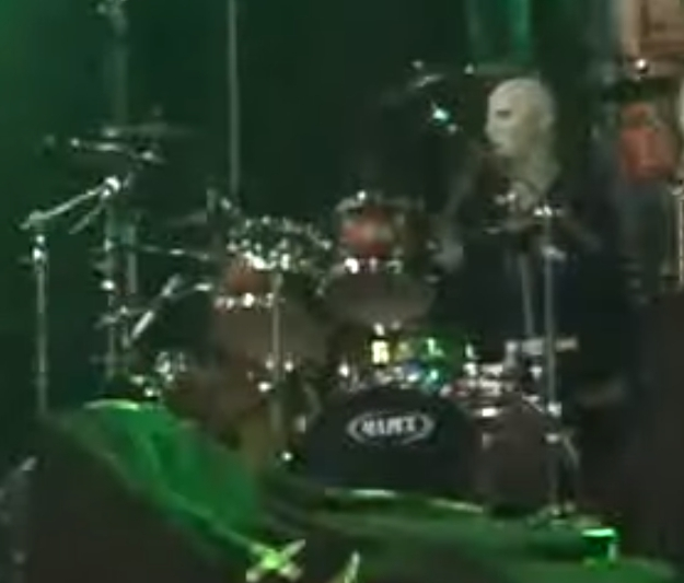 Powerwolf live 2009.